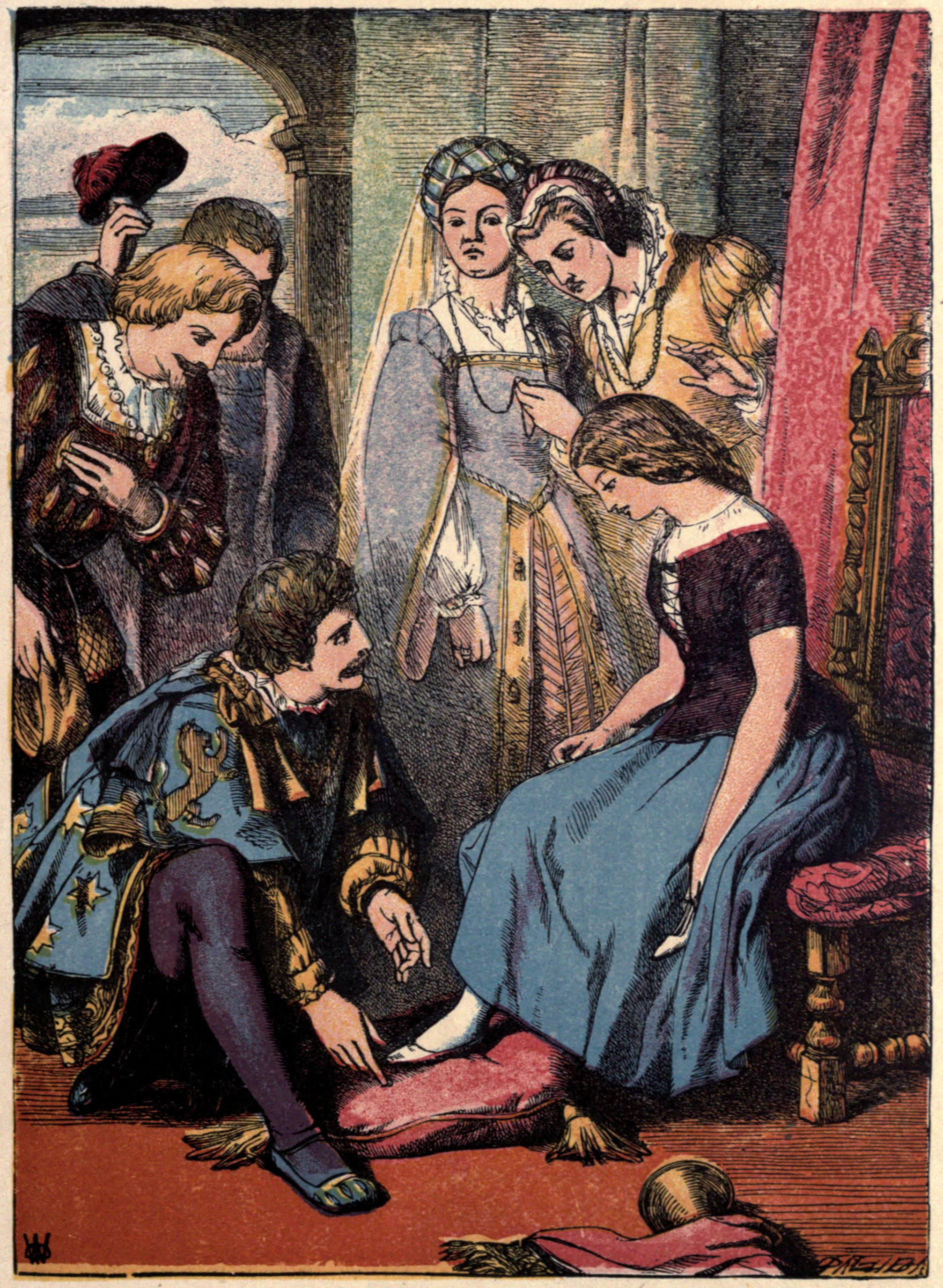 The sixth illustration of the 1865 edition of Cinderella. It appears on page 11.